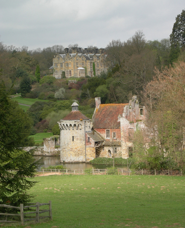 Photo Tony Hobbs, Adelaide estimate.